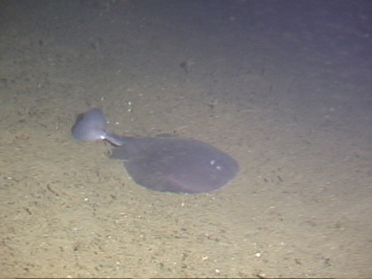 Pacific electric ray (Torpedo californica) at Mt. Pinos.